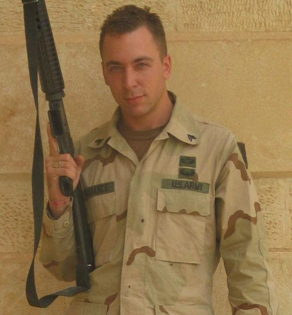 Baghdad, May 2003